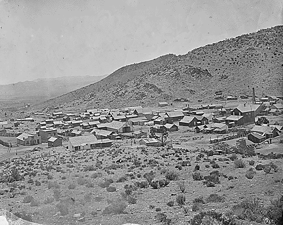 The town of Belmont, Nevada in 1871. It is currently a ghost town.